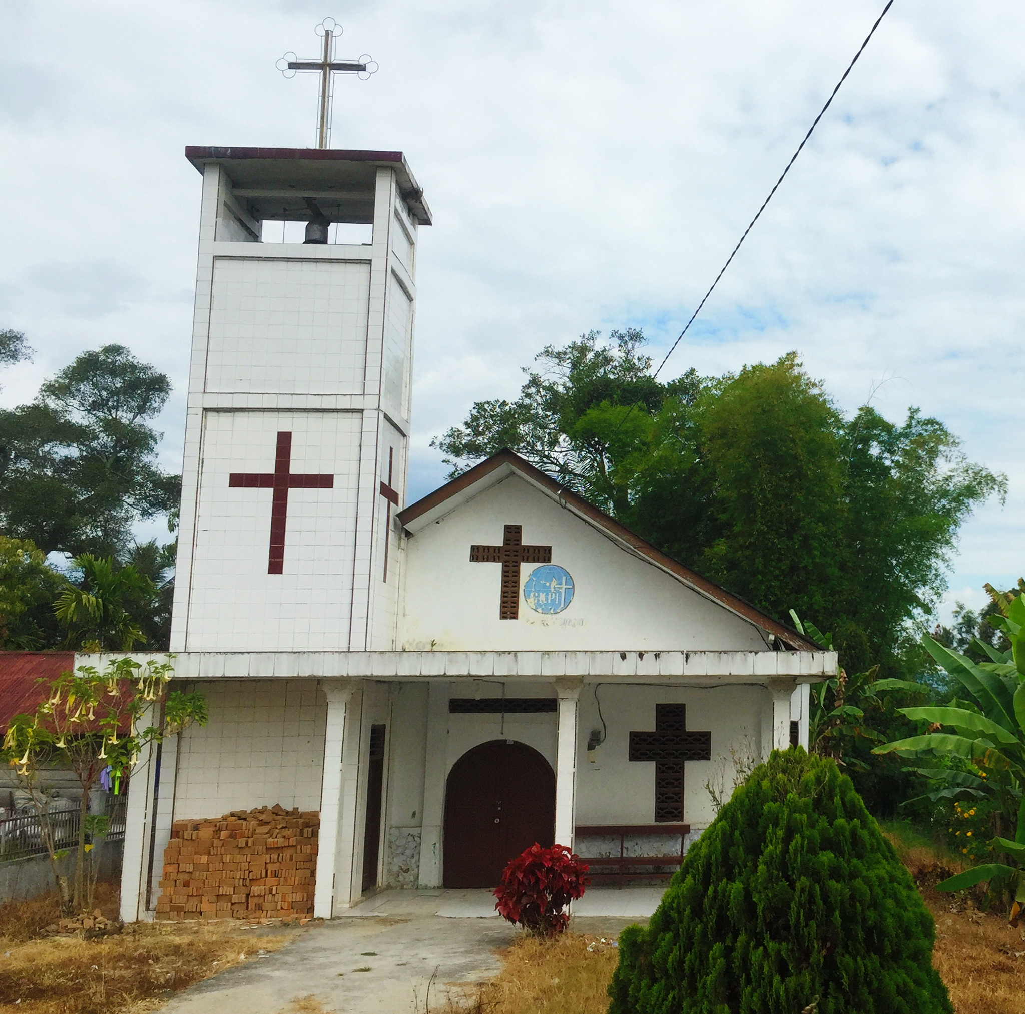 GKPI Gorat Mogang, Res. Nainggolan, church in Gorat Pallombuan, Palipi, Samosir